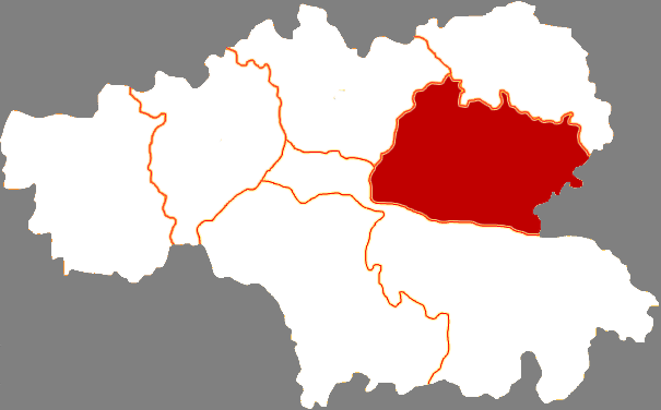 Location of Qingshui county in Tianshui city, China